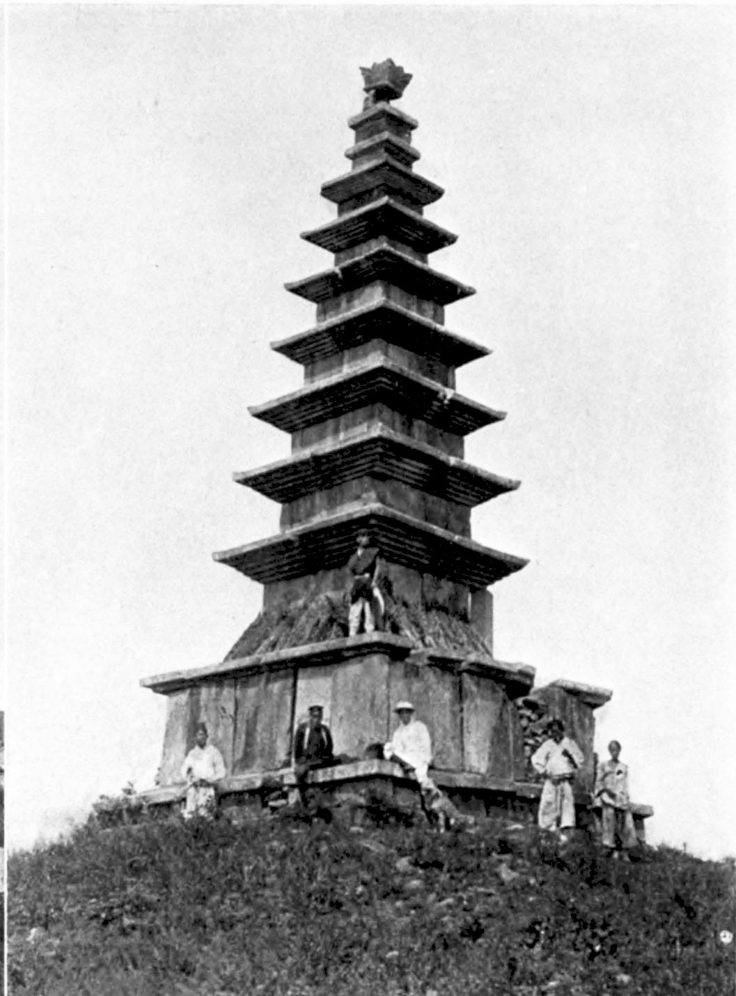 A Buddhist relic in the South.jpg; p.123 The passing of Korea (book)